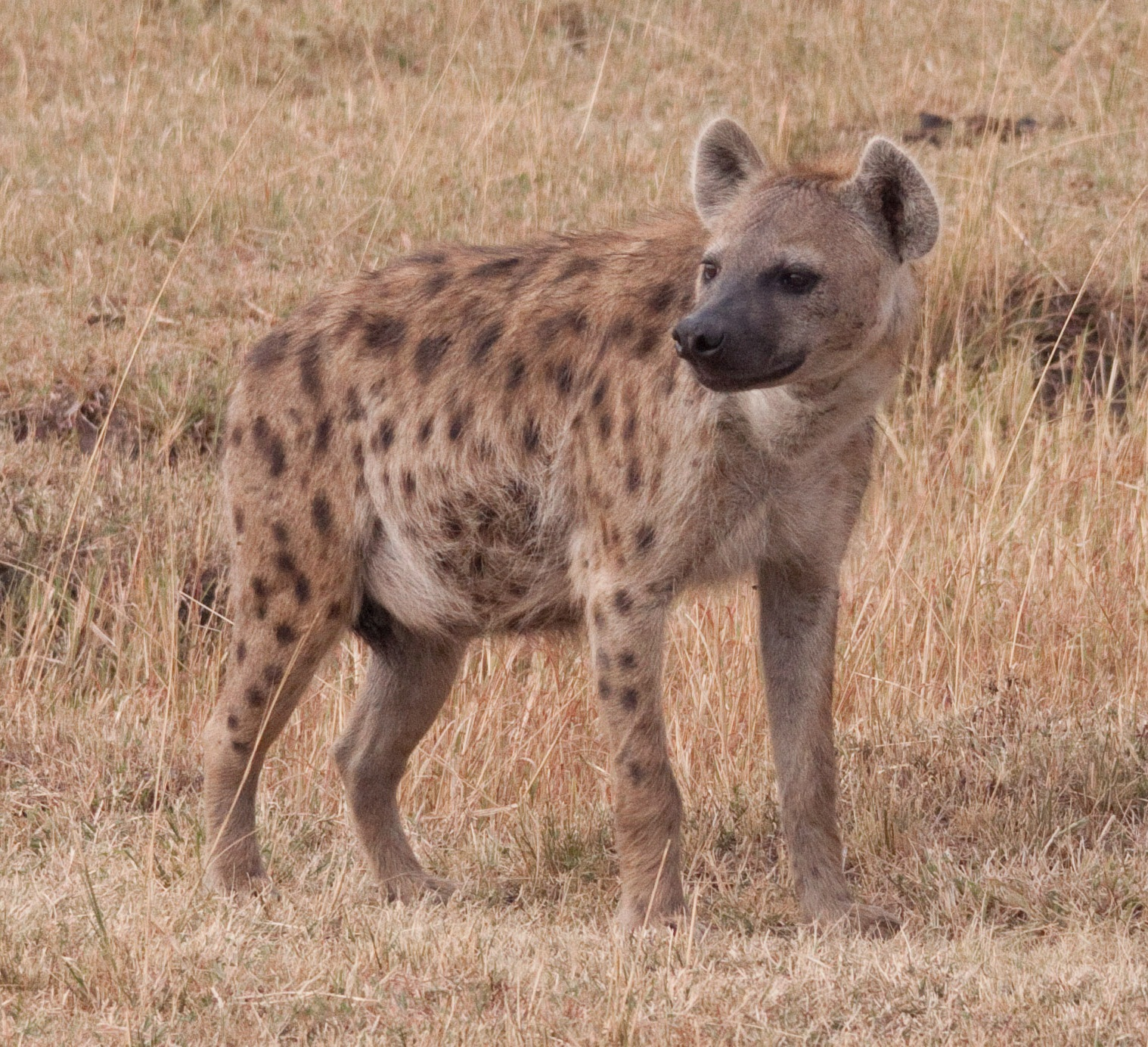 Spotted hyena in Kenya